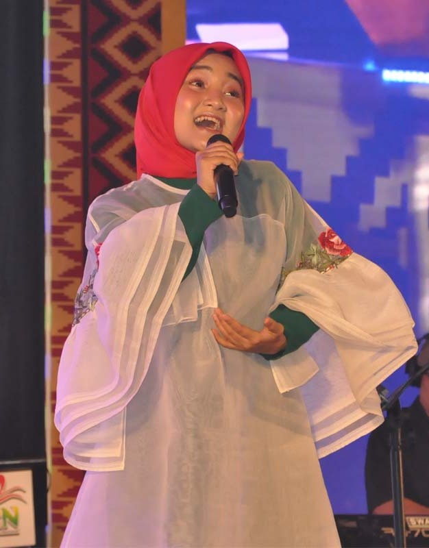 The appearance of a talented young singer, Fatin Shidqia Lubis successfully amazed the participants who attended the Grand Ballroom at Novotel Lampung, Monday (09/16). His presence was the closing part of the 2019 FLS2N opening program by bringing songs from his inaugural album, such as I Choose Faithful. Fatin's petite figure who appeared agile on the stage triggered the participants' adrenaline to get up and sing with the idol.